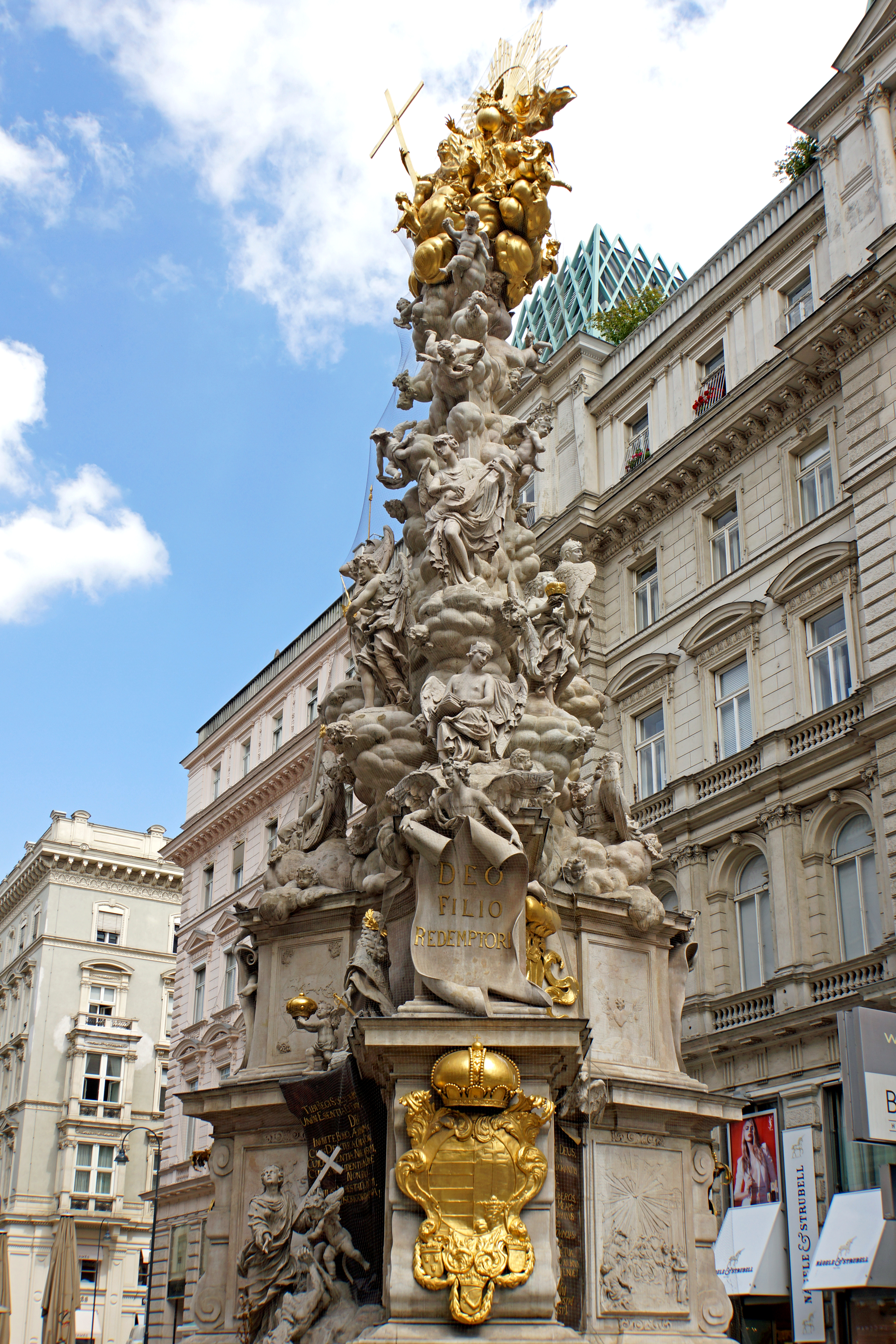 At the centre of Graben stands the Pestsäule (Plague Column), also known as the Dreifaltigkeitssäule (Trinity Column). In 1679, between 75,000 and 150,000 citizens of Vienna fell victim to the devastating plague epidemic. Once the crisis was finally over, Emperor Leopold I decided to have a memorial built to remember those who were lost. A distinguished group of sculptors and architects set to work on this monument that was finally inaugurated in 1693. The gilded sculpture group at the top represents the Holy Trinity, seated on a cloud. The whole monument is covered with a net.